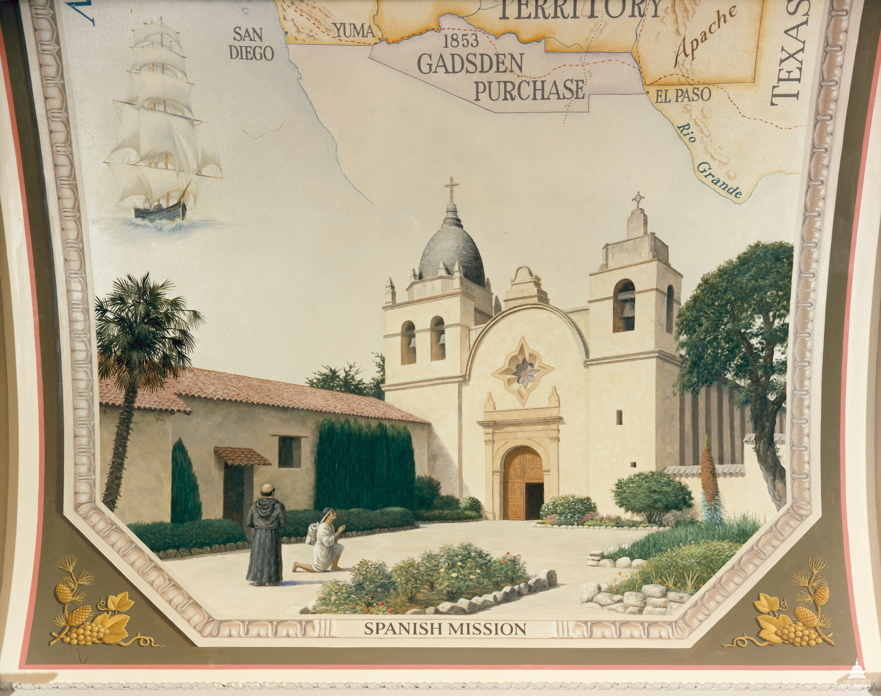 EverGreene Painting Studios Oil on Canvas 1993-1994 A converted Native American kneels in prayer under the guidance of a monk in front of the El Carmelo mission. This official Architect of the Capitol photograph is being made available for educational, scholarly, news or personal purposes (not advertising or any other commercial use). When any of these images is used the photographic credit line should read “Architect of the Capitol.” These images may not be used in any way that would imply endorsement by the Architect of the Capitol or the United States Congress of a product, service or point of view. For more information visit